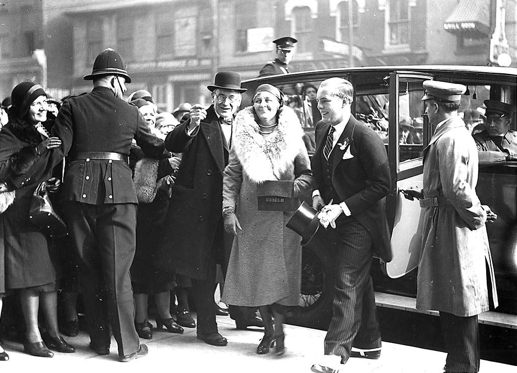 John David Eaton and Lady Eaton at Eaton's College Street store opening